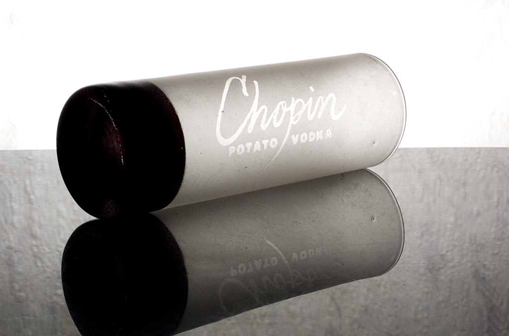 Chopin Vodka photo with permission by Arkadiusz Benedykt